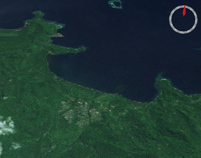 NASA World Wind image of Arawa and it's port of Kieta.